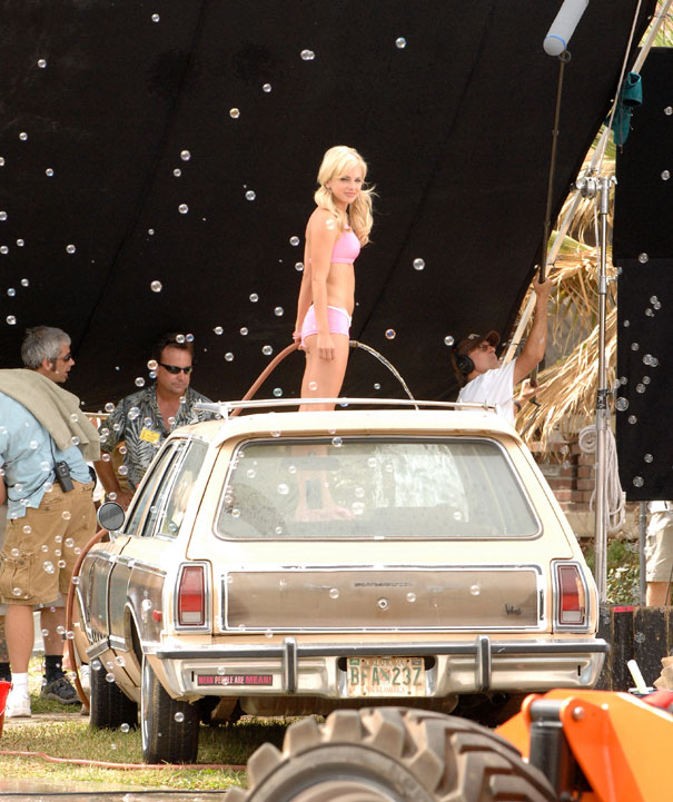 Behind the scenes image of Anna Faris filming a scene during the movie The House Bunny (2008).